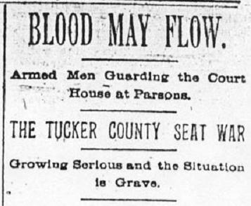 A headline from an August 8, 1893, article of The Intelligencer warning of violence in Tucker County, West Virginia, following the courthouse raid in St George on August 1.